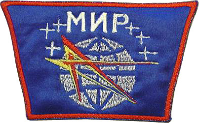 Mir patch as seen in the mission Soyuz TM-2